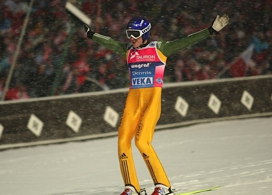 Denis Kornilov during Adam's Bull's Eye on 26 March 2011 in Zakopane.